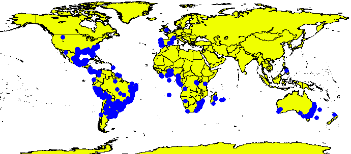 Hydrocotyle bonariensis occurrence data from GBIF (30th March 2019) GBIF Occurrence Download